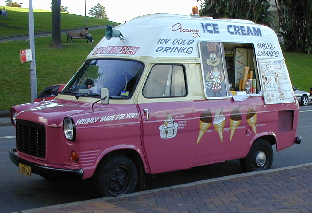 Ice cream truck in Sydney, Australia